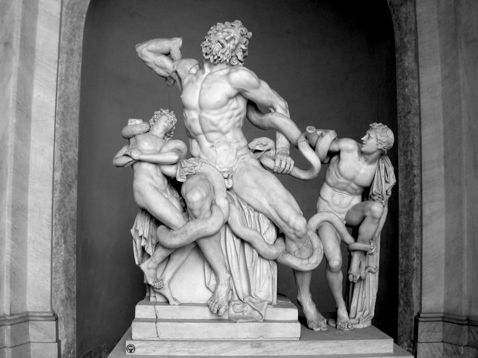 Laocoon Sculpture in the Vatican Museum, Rome. Picture by Benutzer:Fb78.